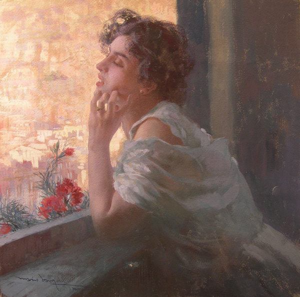 Painting by Mario Borgoni